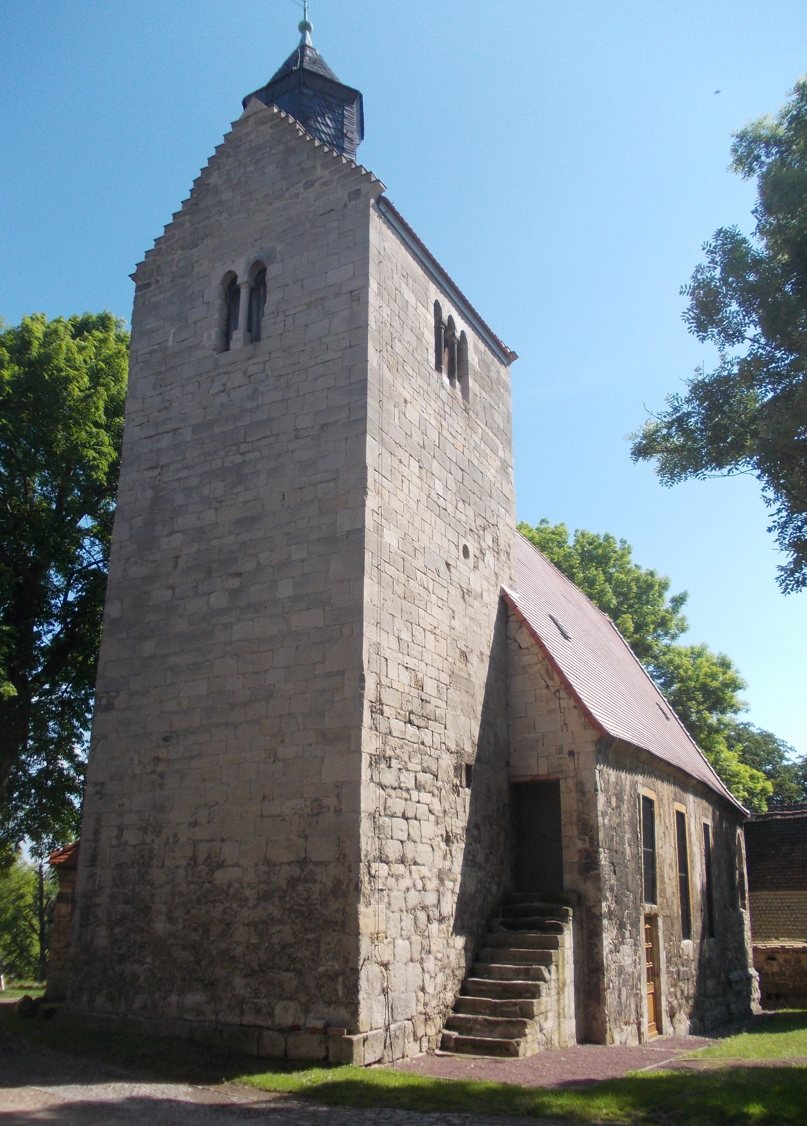 St. Peter and Paul Church in Alberstedt (Farnstädt, Saalekreis, Saxony-Anhalt)